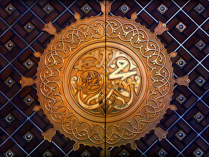 Muhammad's name, followed by his title "Apostle of God", inscribed on the gates of Al-Masjid al-Nabawi.